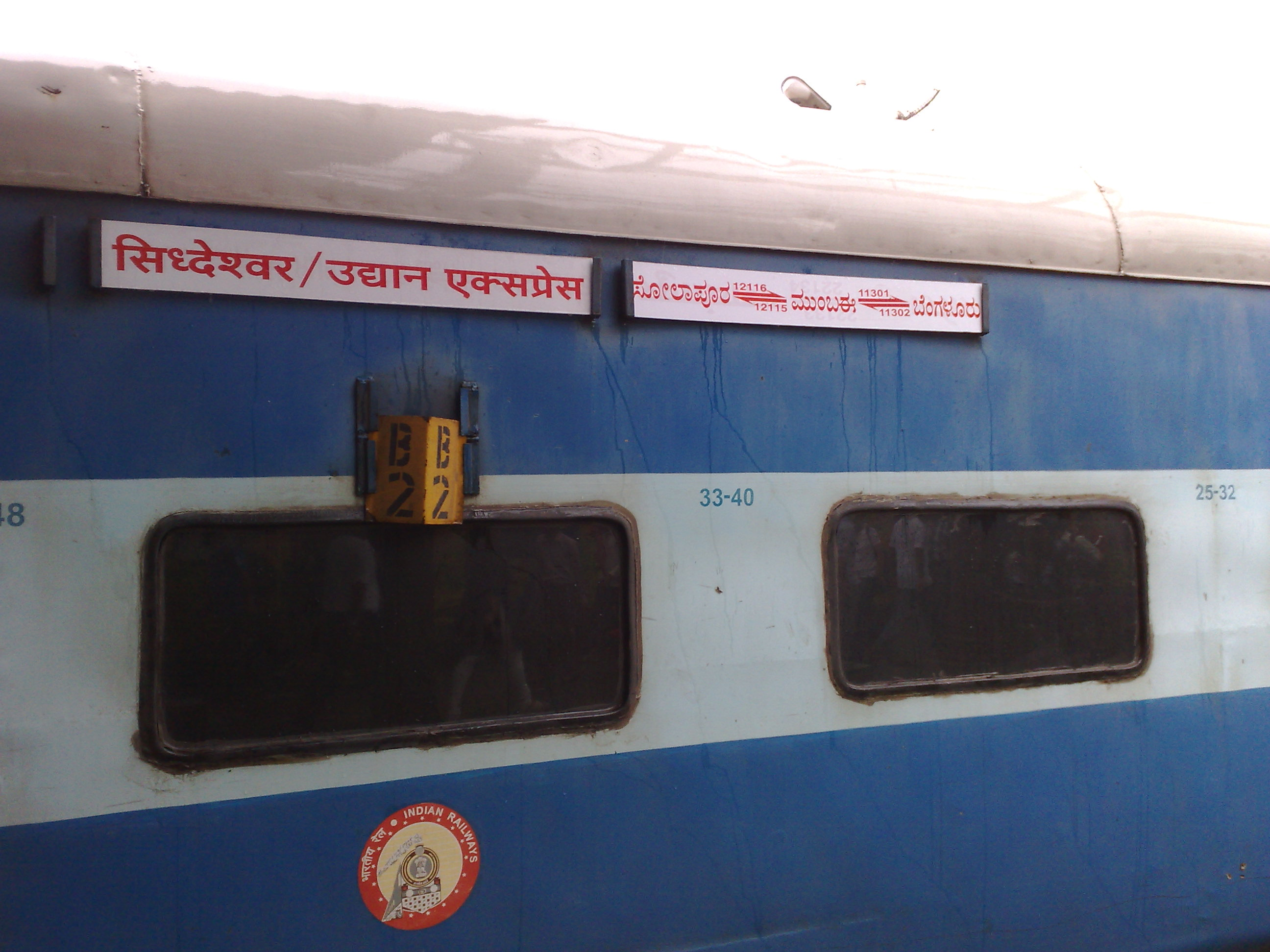 11301 Udyan Express AC coach